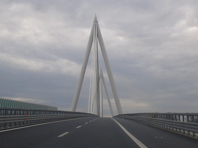 Bridge over the Adige river, Autostrada A31 Valdastico (Badia Polesine, Italy)